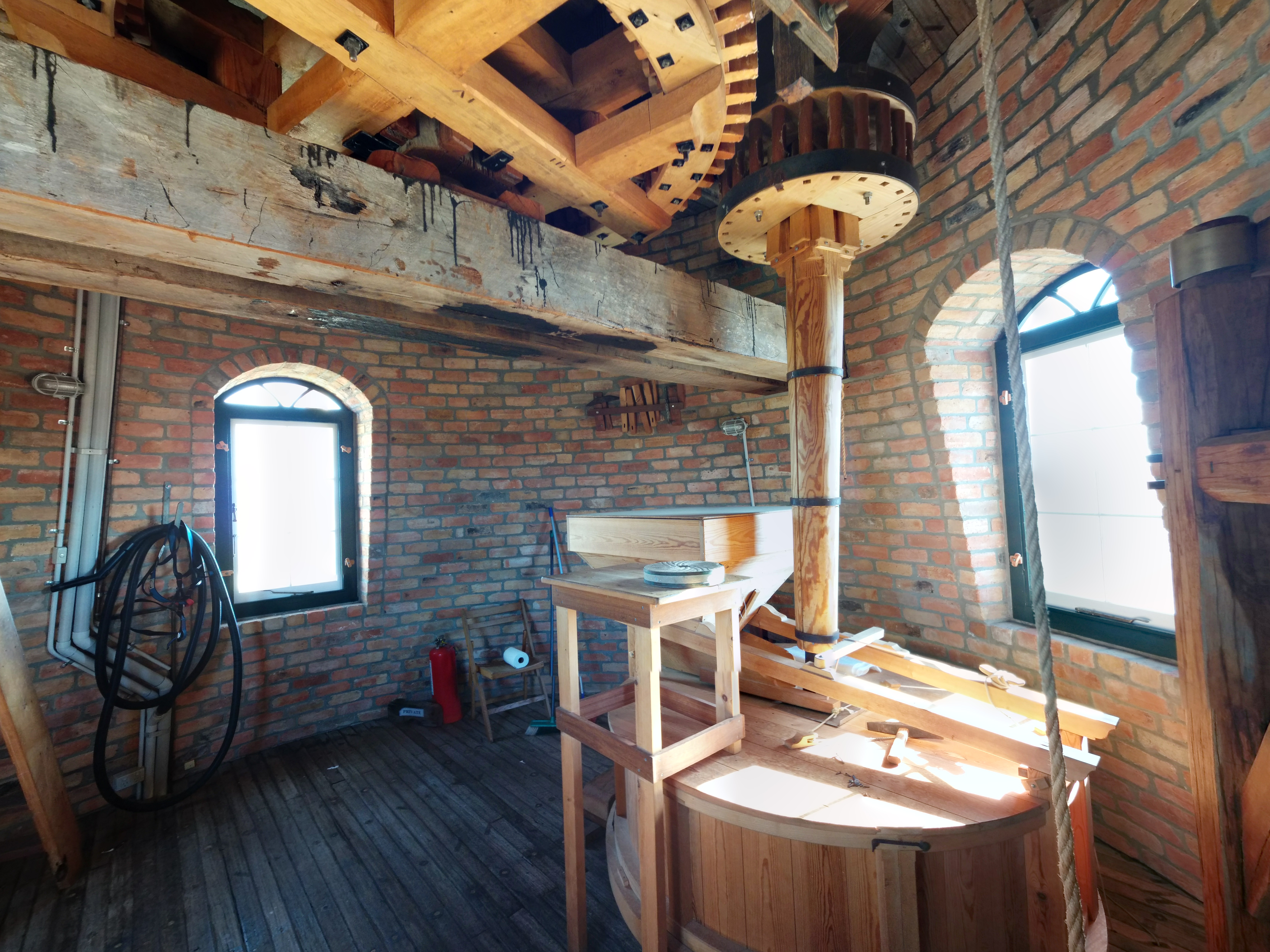 This picture shows some of the wooden gears and the millstone in the Lily windmill